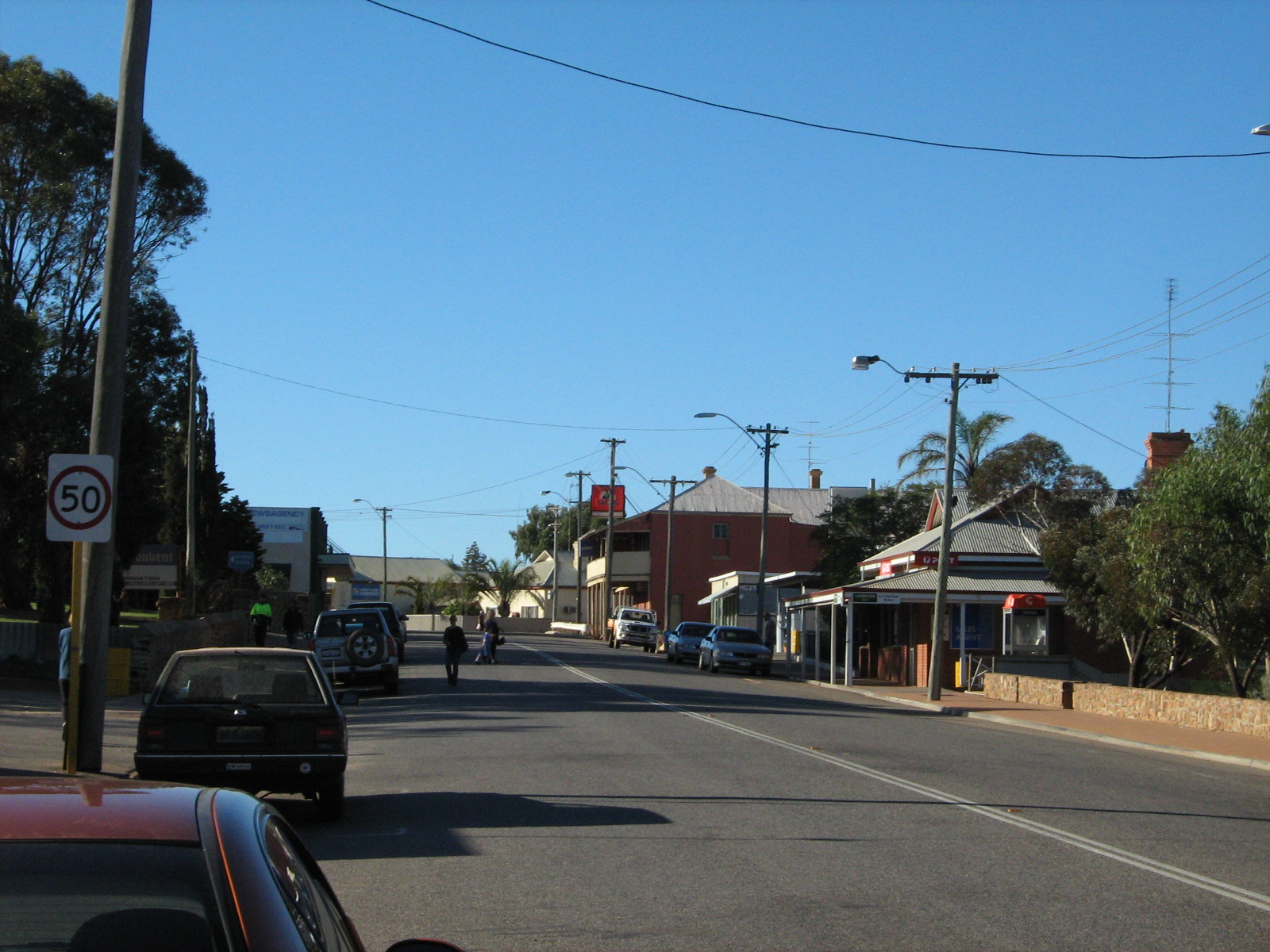 Main street of Northampton in Western Australia.